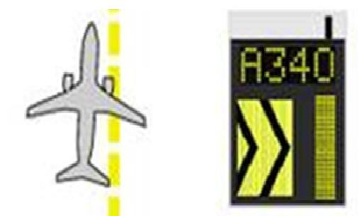 Visual docking guidance system